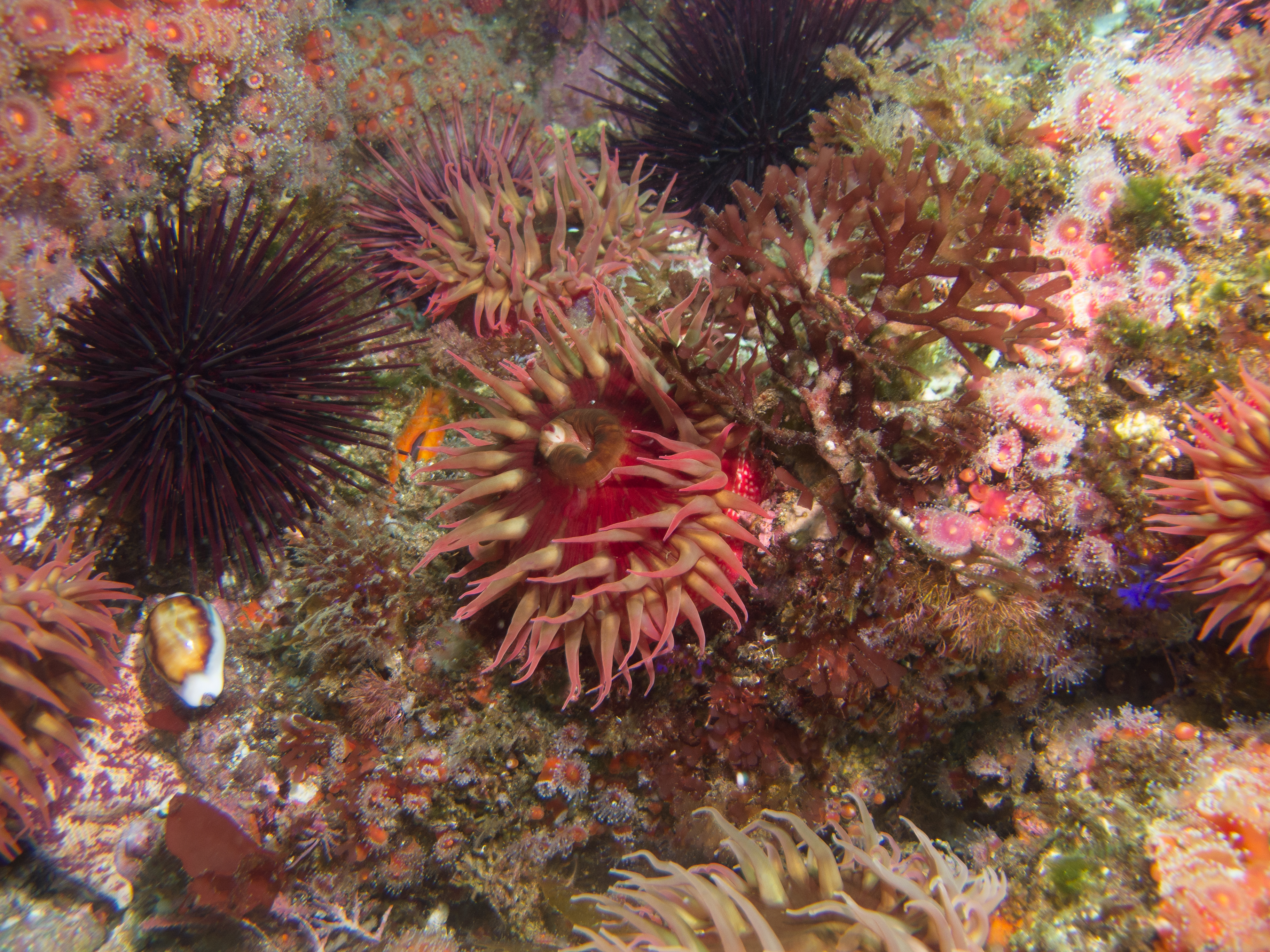 Lost of Life